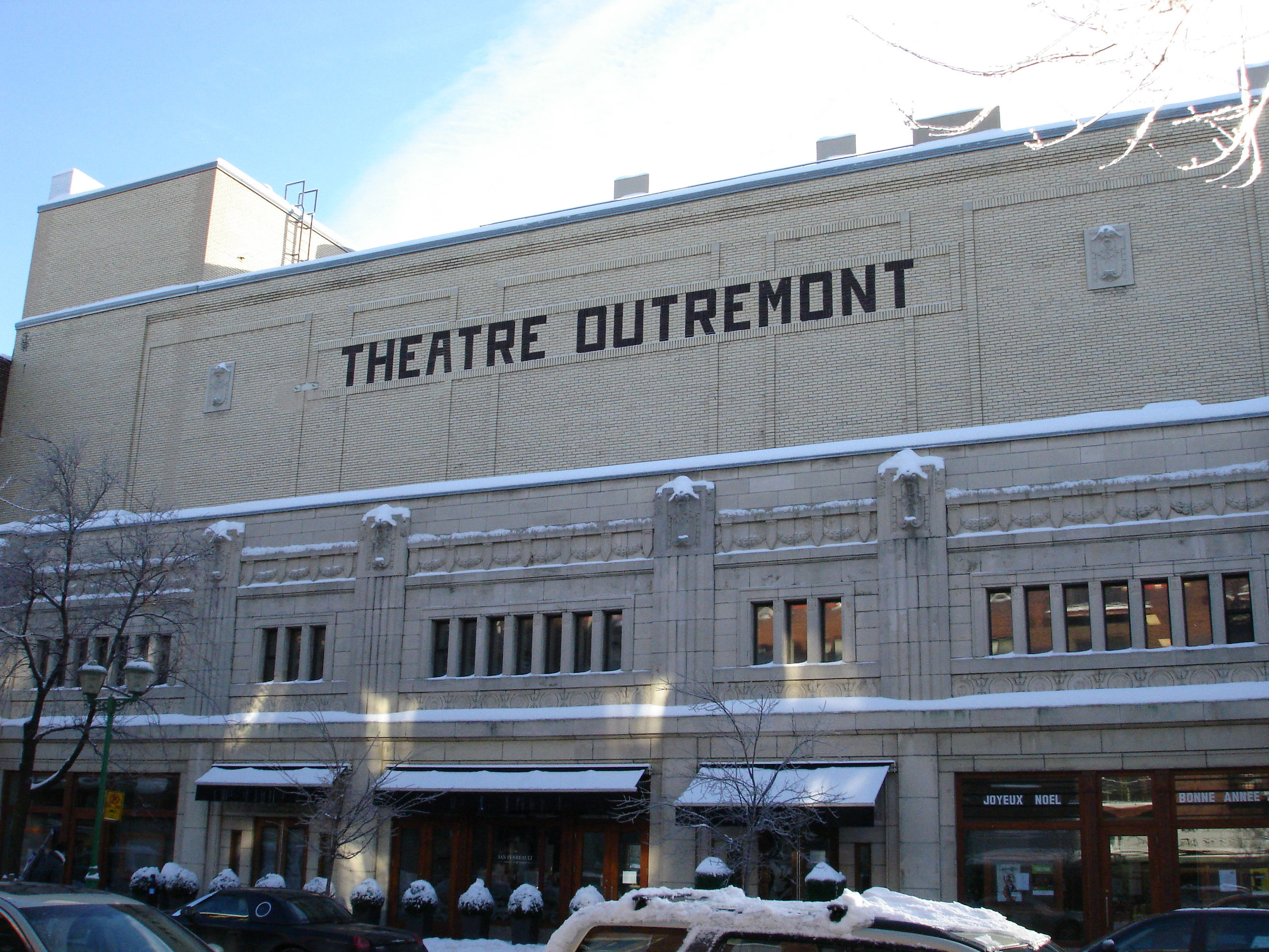 Theatre Outremont (Montreal, Quebec, Canada)